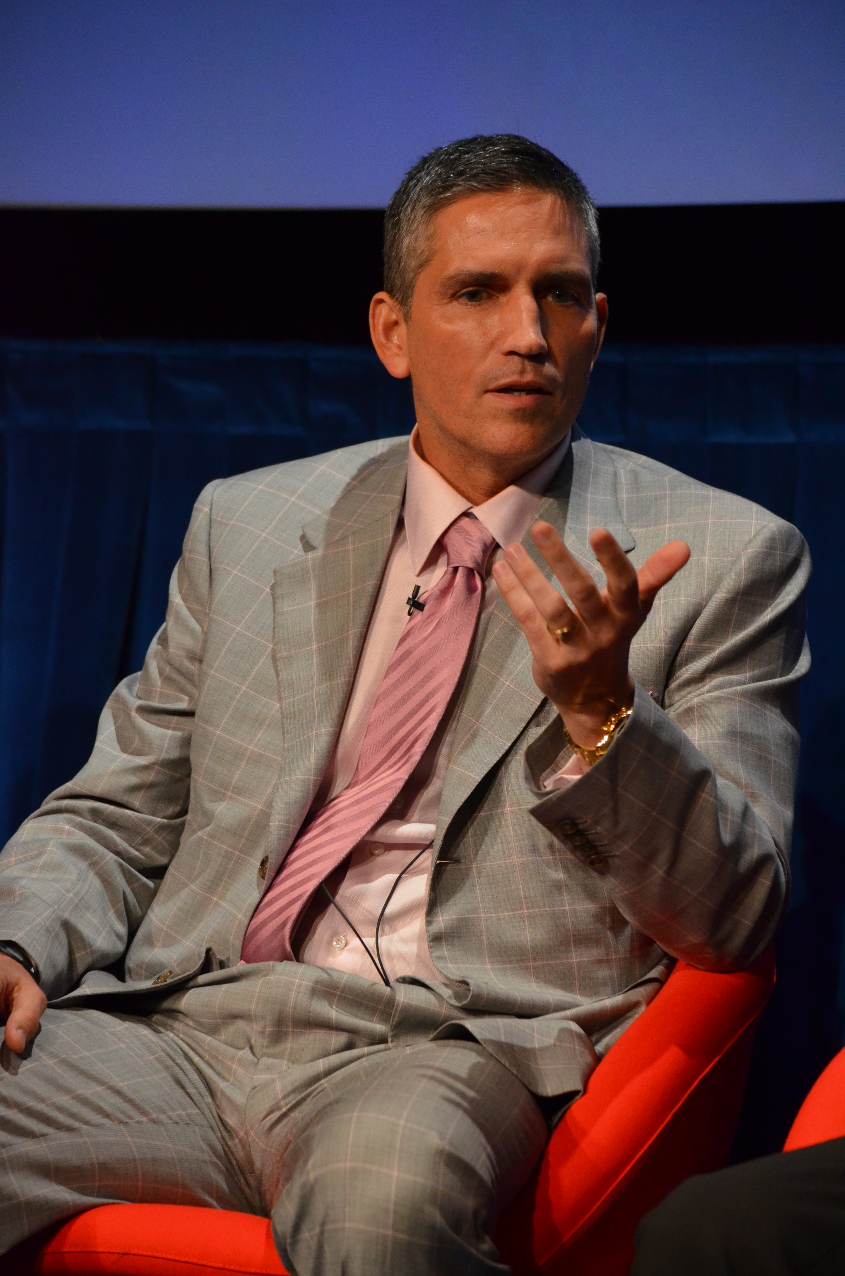 Jim Caviezel at "Onstage @ Paley: Person of Interest", Paley Center, Los Angeles